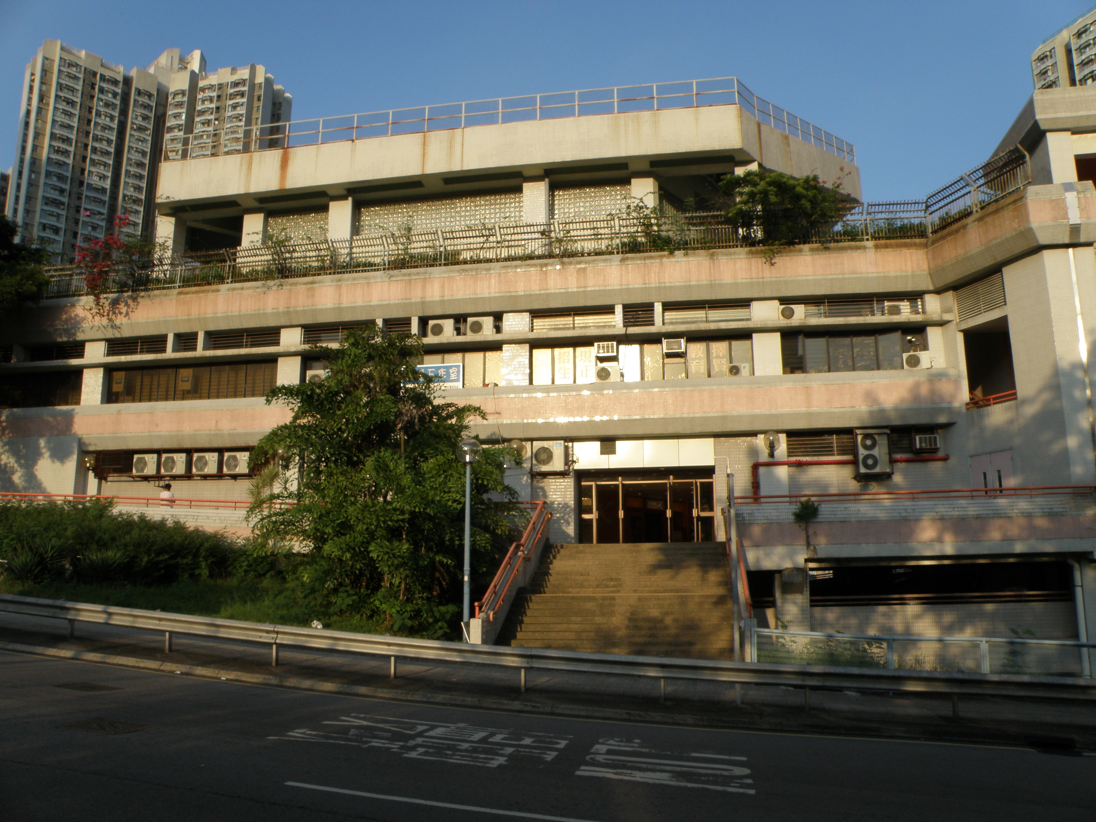 Cheung Hang Shopping Centre in Tsing Yi, Hong Kong.